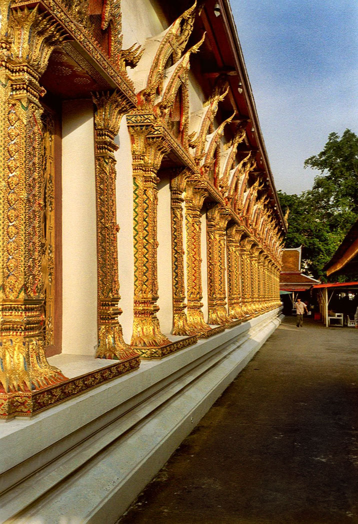 Wat Chana Songkram, Banglampoo (Phra Nakhon district), Bangkok, May 2002